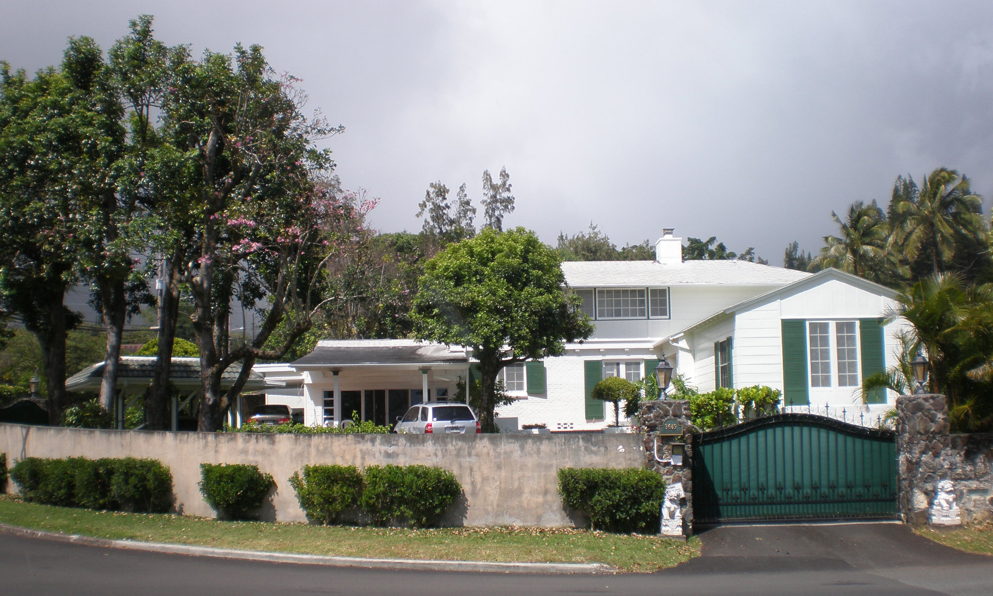 James L. Coke House, 3649 Nuuanu Pali Drive, Honolulu, Hawaii, on National Register of Historic Places, built 1934, architects Richard Tongg and C.W. Dickey